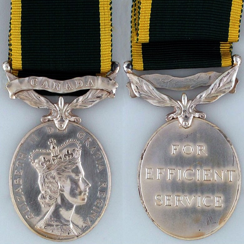 The type 3 Queen Elizabeth II version of the Efficiency Medal (Canada). This medal version was created by Canada utilising a unique Royal Canadian Mint effigy of the Queen and was awarded only to Canadians.